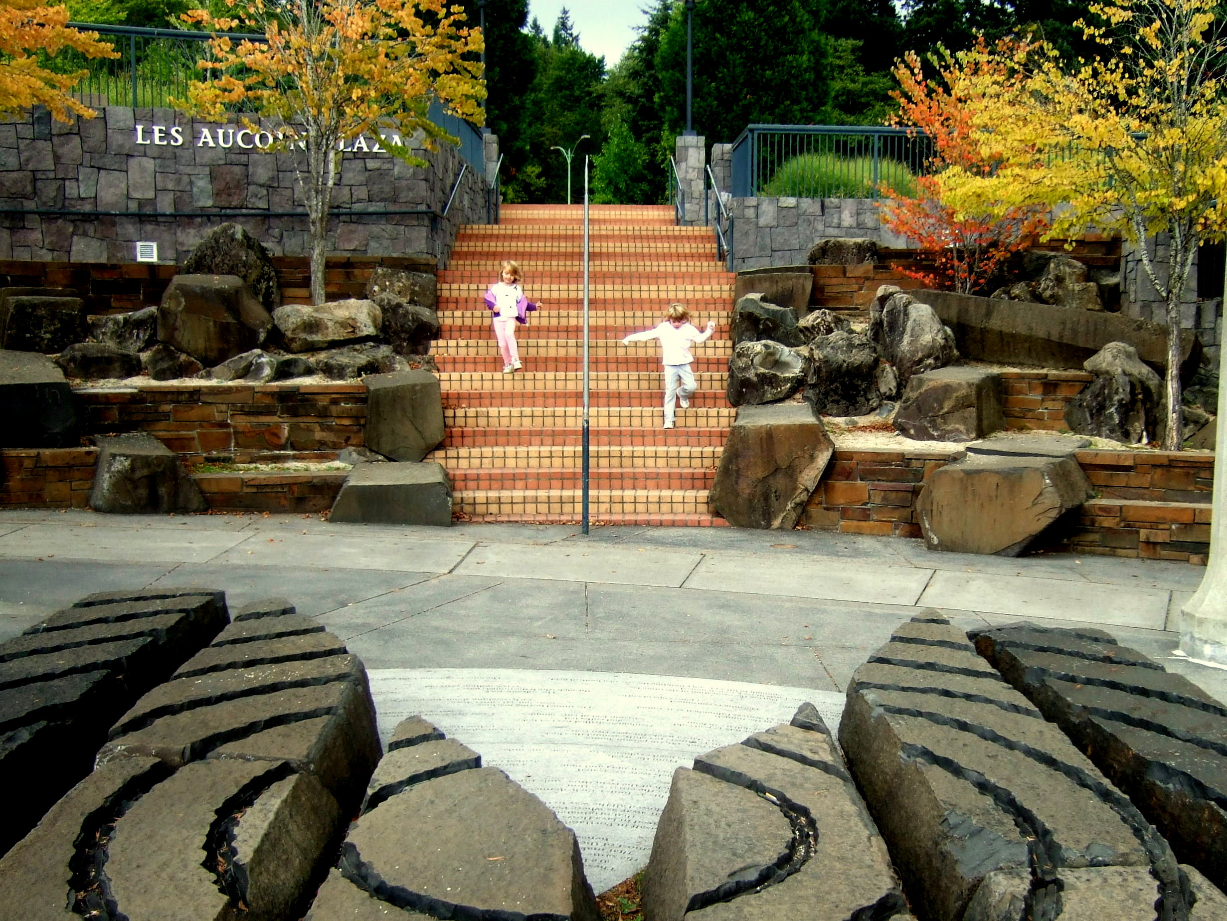 Les AuCoin Plaza at the surface level of the Washington Park MAX station, outside of the Oregon Zoo in Portland, Oregon